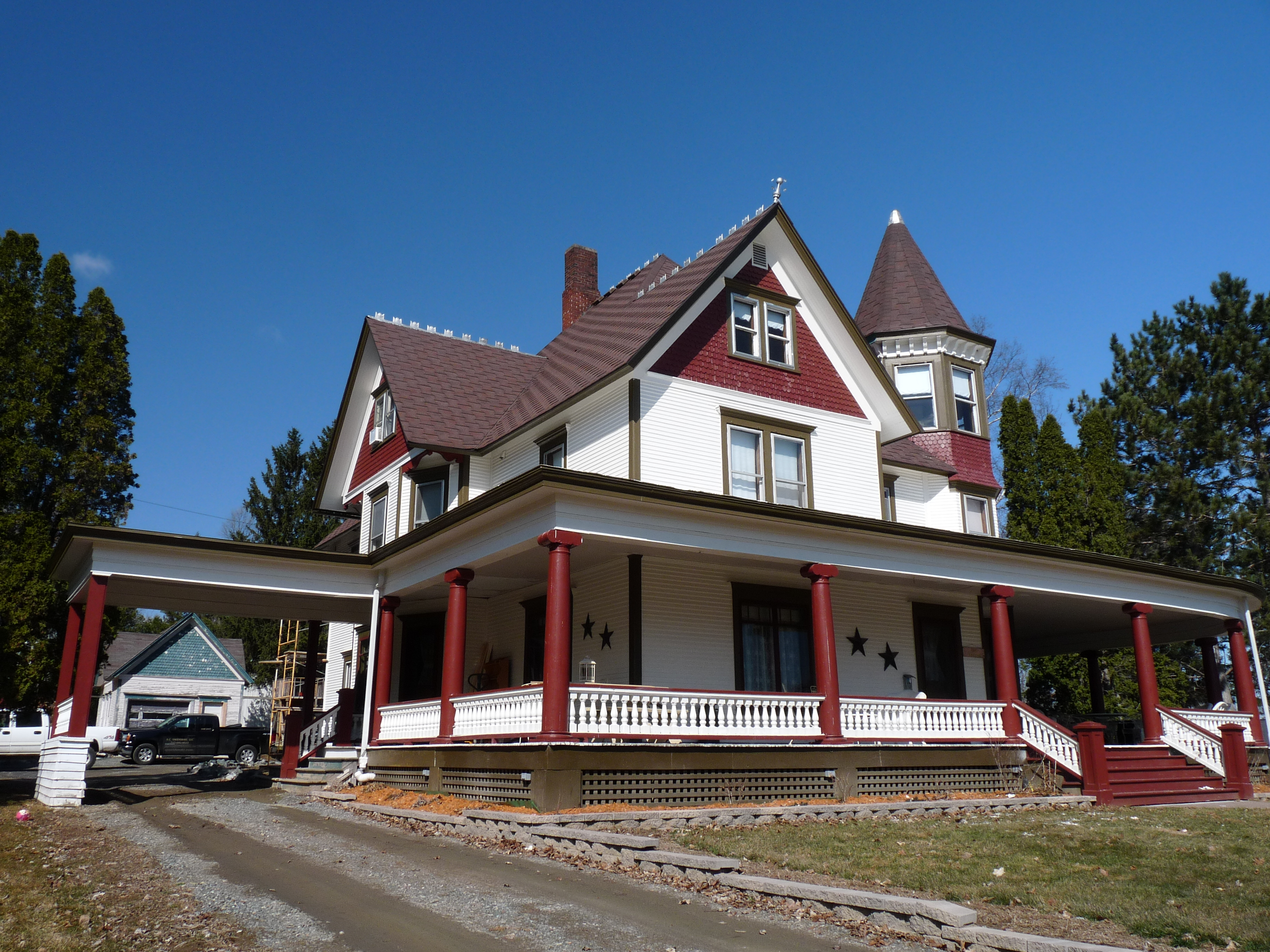 The Charles and Theresa Cornelius house in Neillsville, Wisconsin is a Queen Anne home built in 1909, with porte cochere (on left) and matching auto house behind. It was listed on the National Register of Historic Places in 2013.